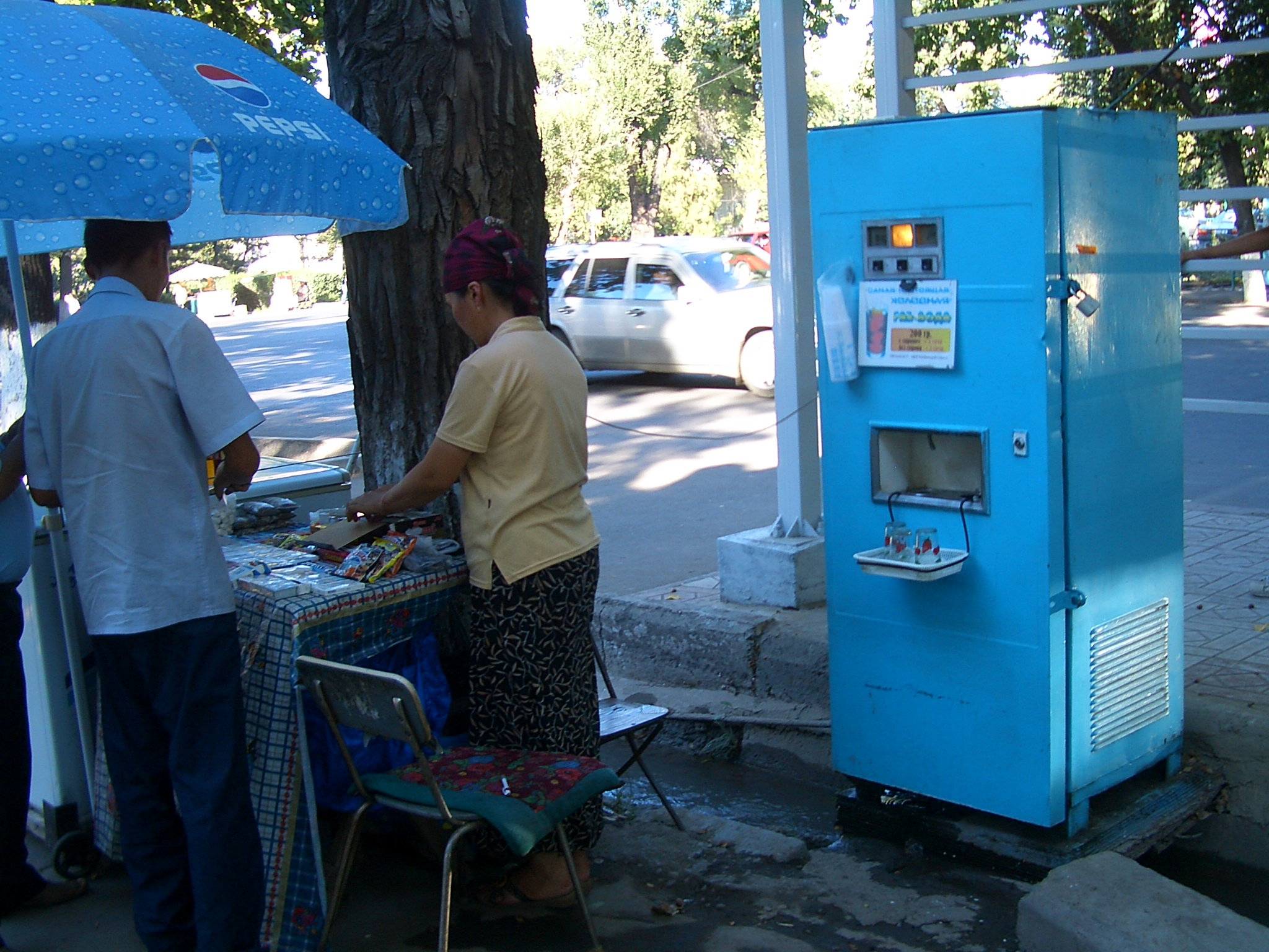 Soda water vending machine (staffed!) in Bishkek. It must have been originally used as a self-service soda fountain during the Soviet era.